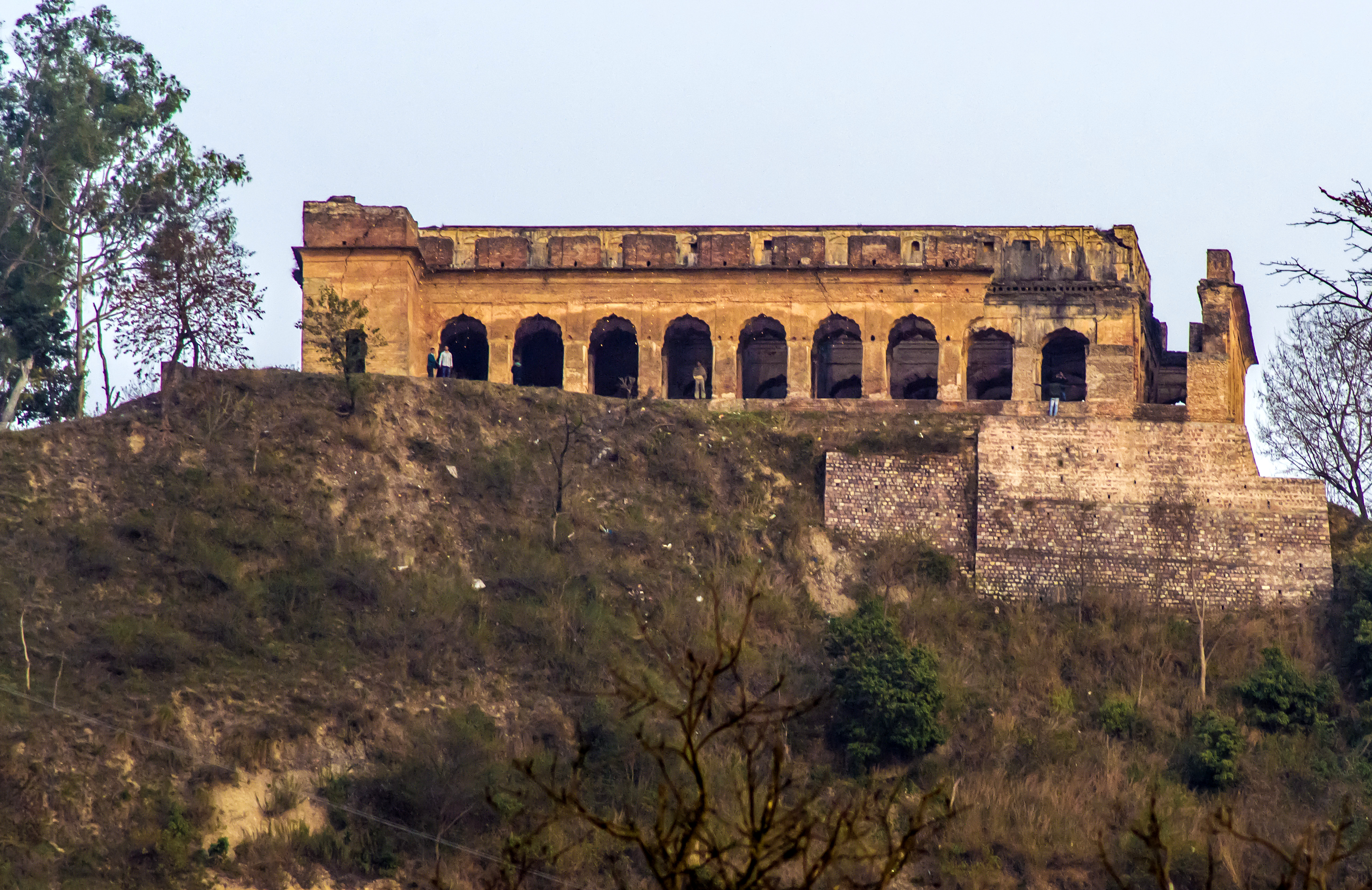 A click of Kato palace situated at Tira in Sujanpur